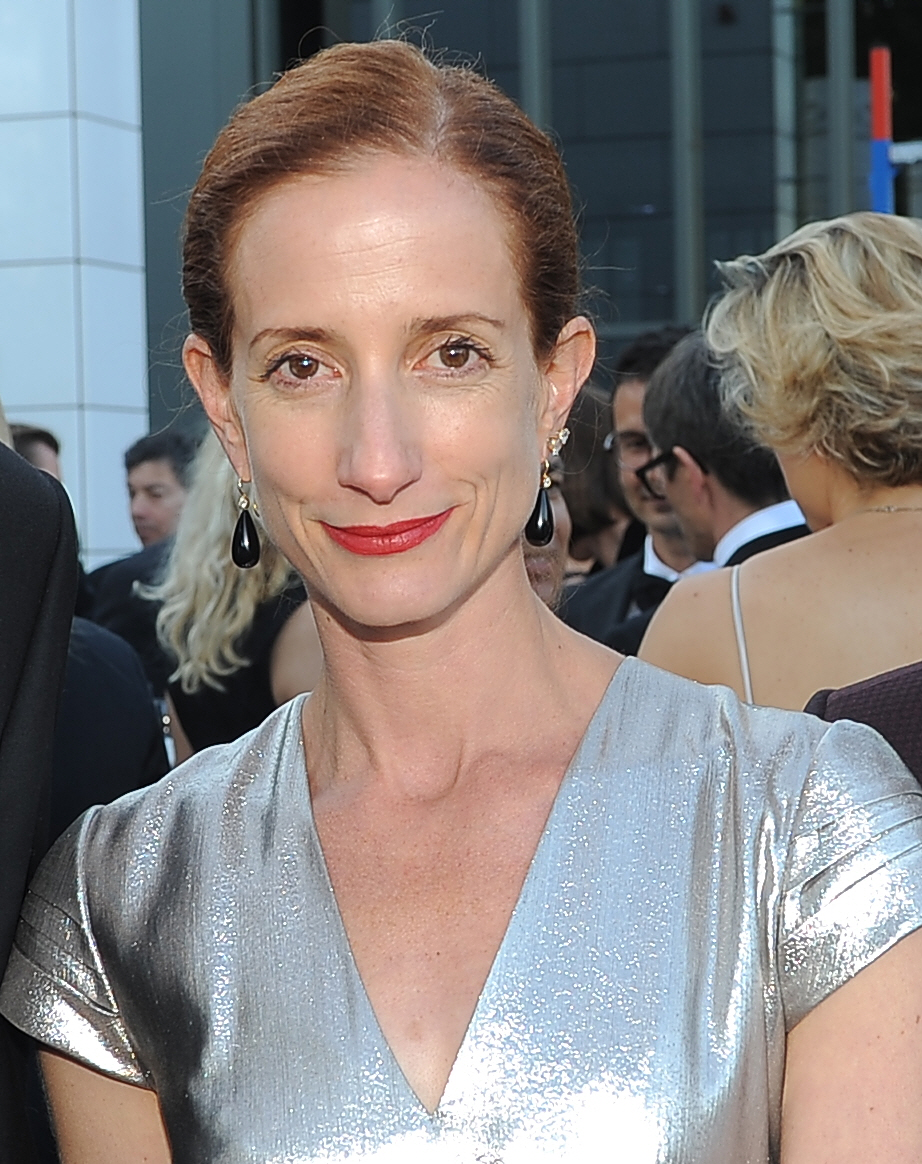 Peter Whitcutt, Anglo American, Vanessa Friedman, FT and John Studzinski, CBE, Blackstone Group